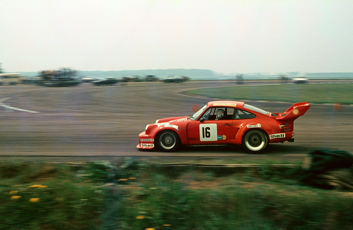 Egon Evertz (D) Porsche 934 at Becketts Corner. Drivers: Kinnunen / Evertz 1976 The World Championship For Manufacturers 6 Hours Silverstone.